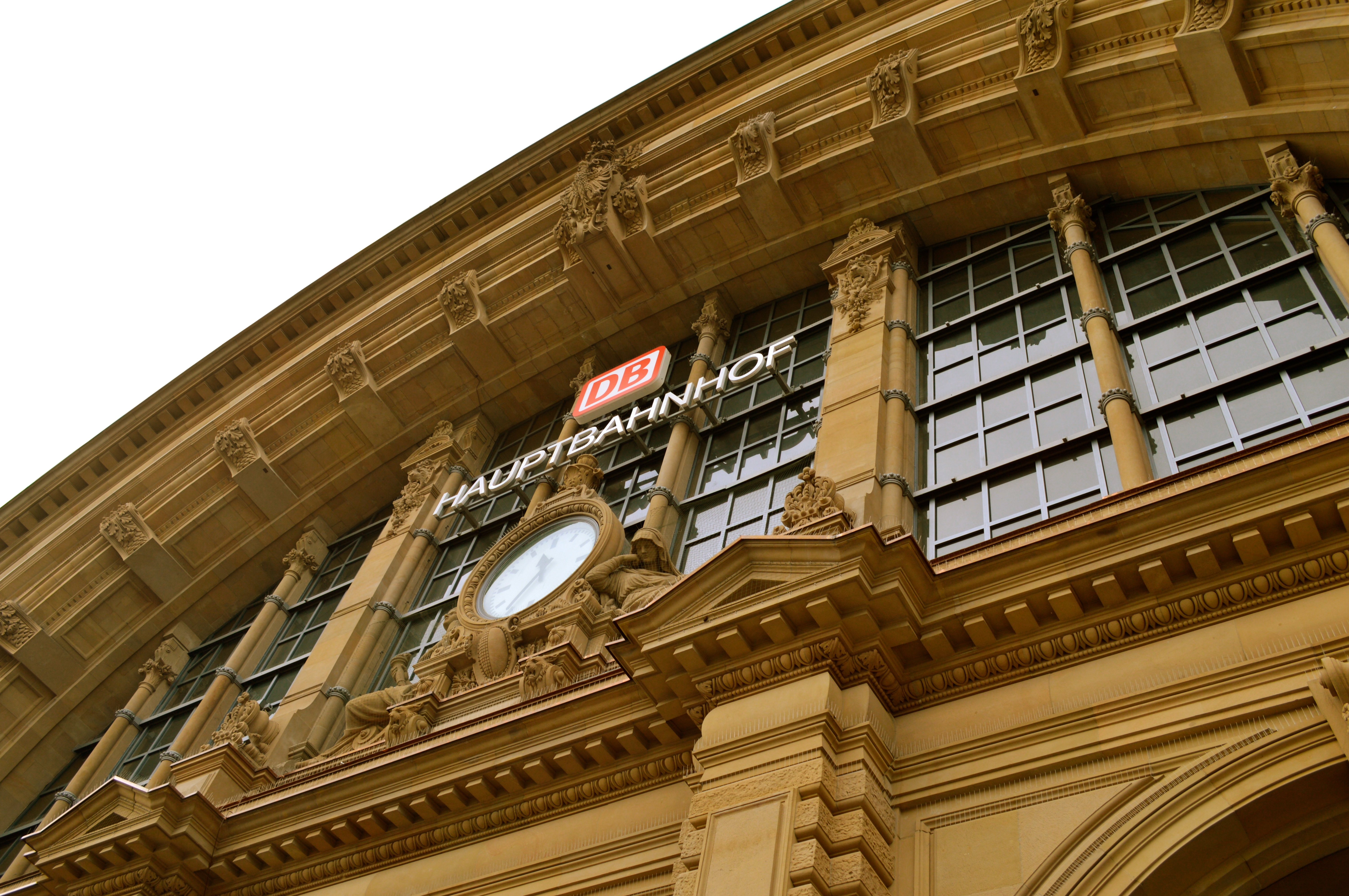 A detailed view of Frankfurt Am Main Hauptbahnhof's facade